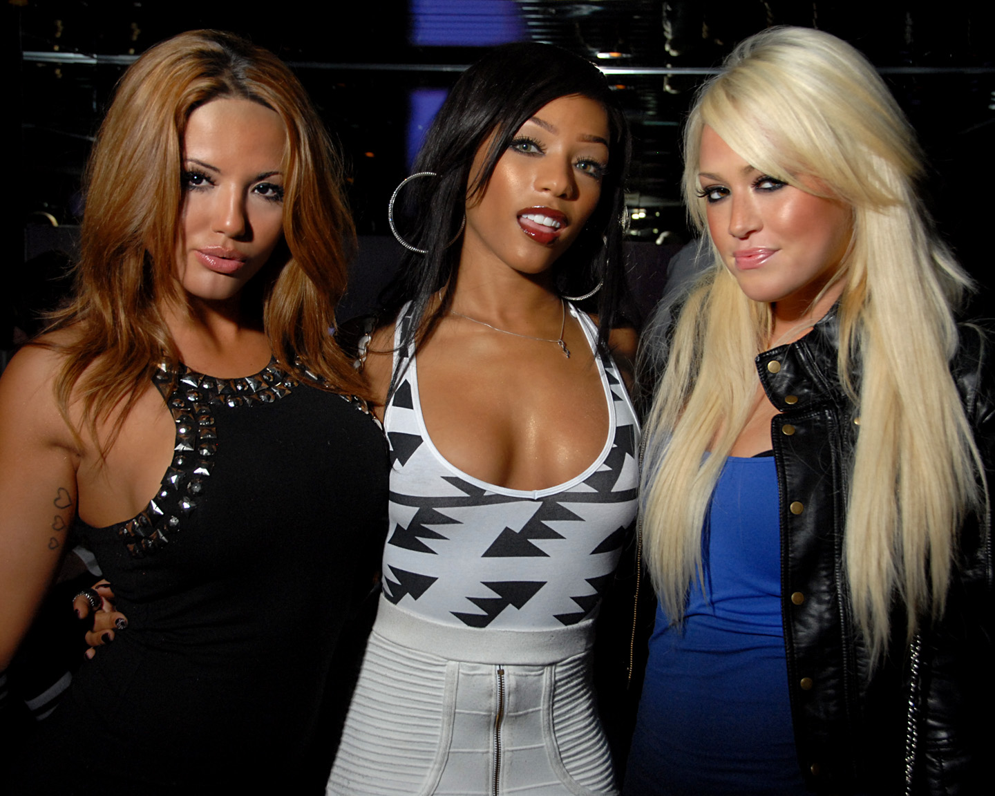 Girlicious performers: Natalie Mejia, Chrystina Sayers, and Nichole Cordova at Mi6, West Hollywood, CA on Oct. 14, 2009 - Photo by Glenn Francis of